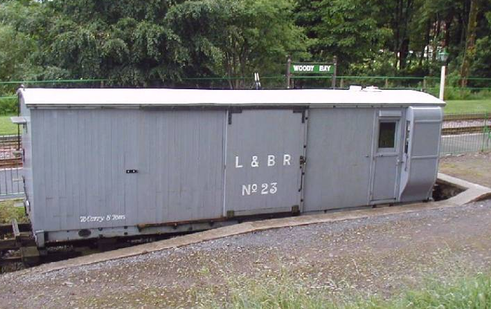 L&B Coach 23 in the loading bay at Woody Bay Lynton & Barnstaple Railway, 2005 The coach was restored by the Devon Support Group of the L&BR Association